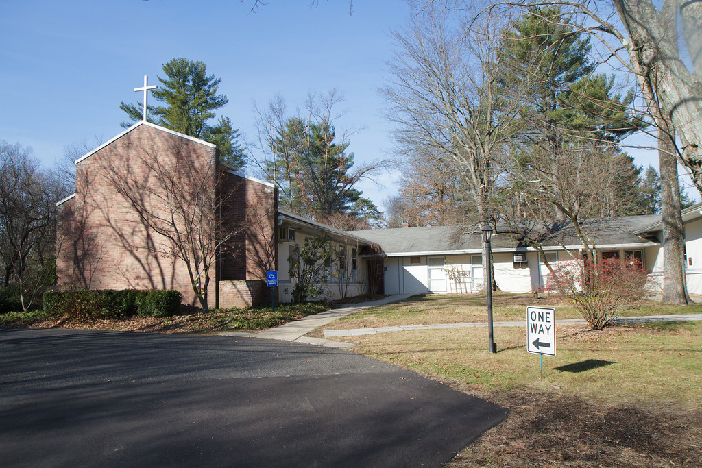 The front of Westerly Road Church, at 25 Westerly Road, Princeton, NJ. Constructed in 1956 and demolished in 2013 after the church relocated to 1025 Bunn Drive and was renamed Stone Hill Church of Princeton.